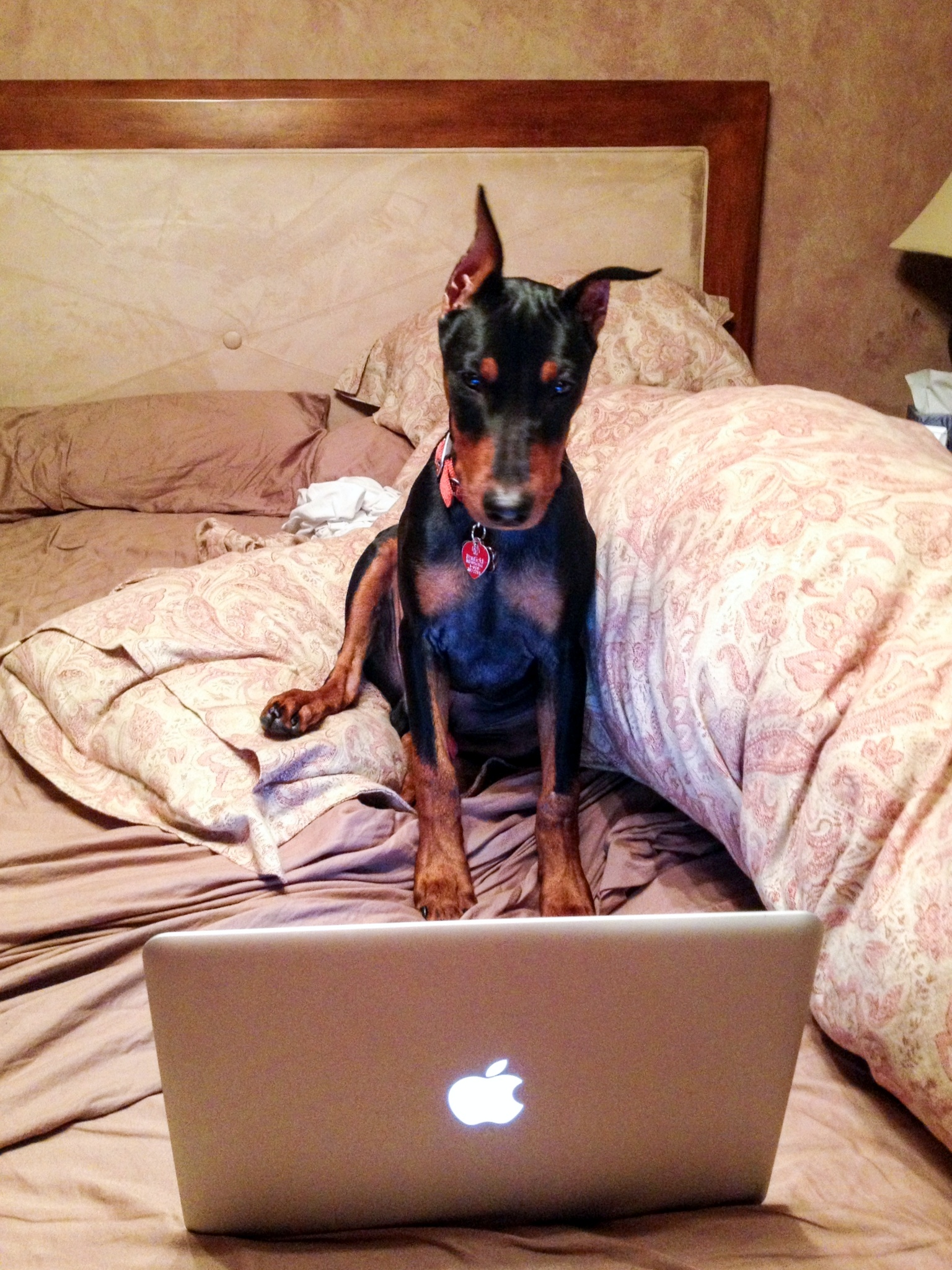 German Pinscher Watching a Video on a Laptop